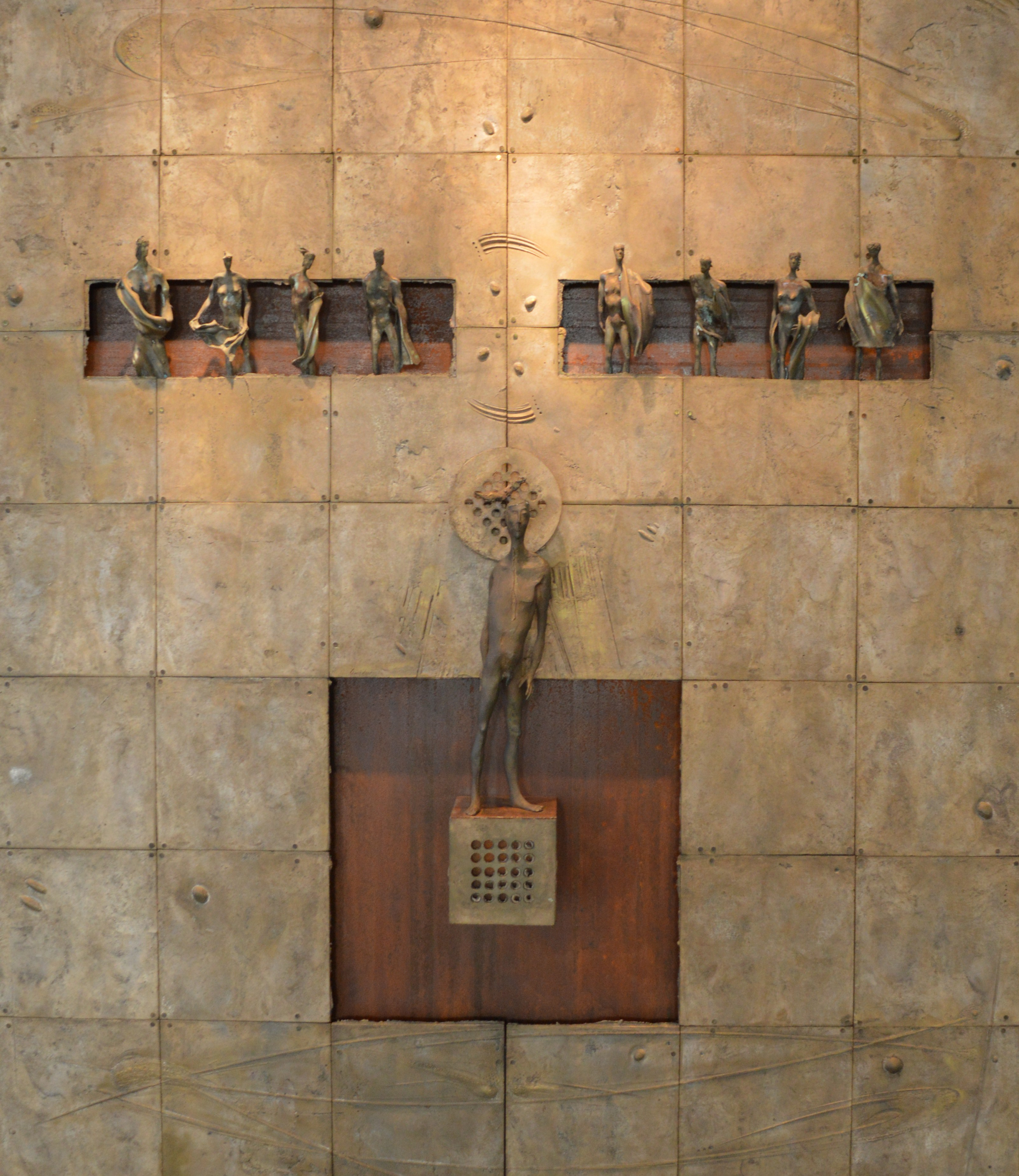 Cecco bonanotte's sculptures in Toyota City Central Library in Toyota city, Aichi prefecture, Japan.